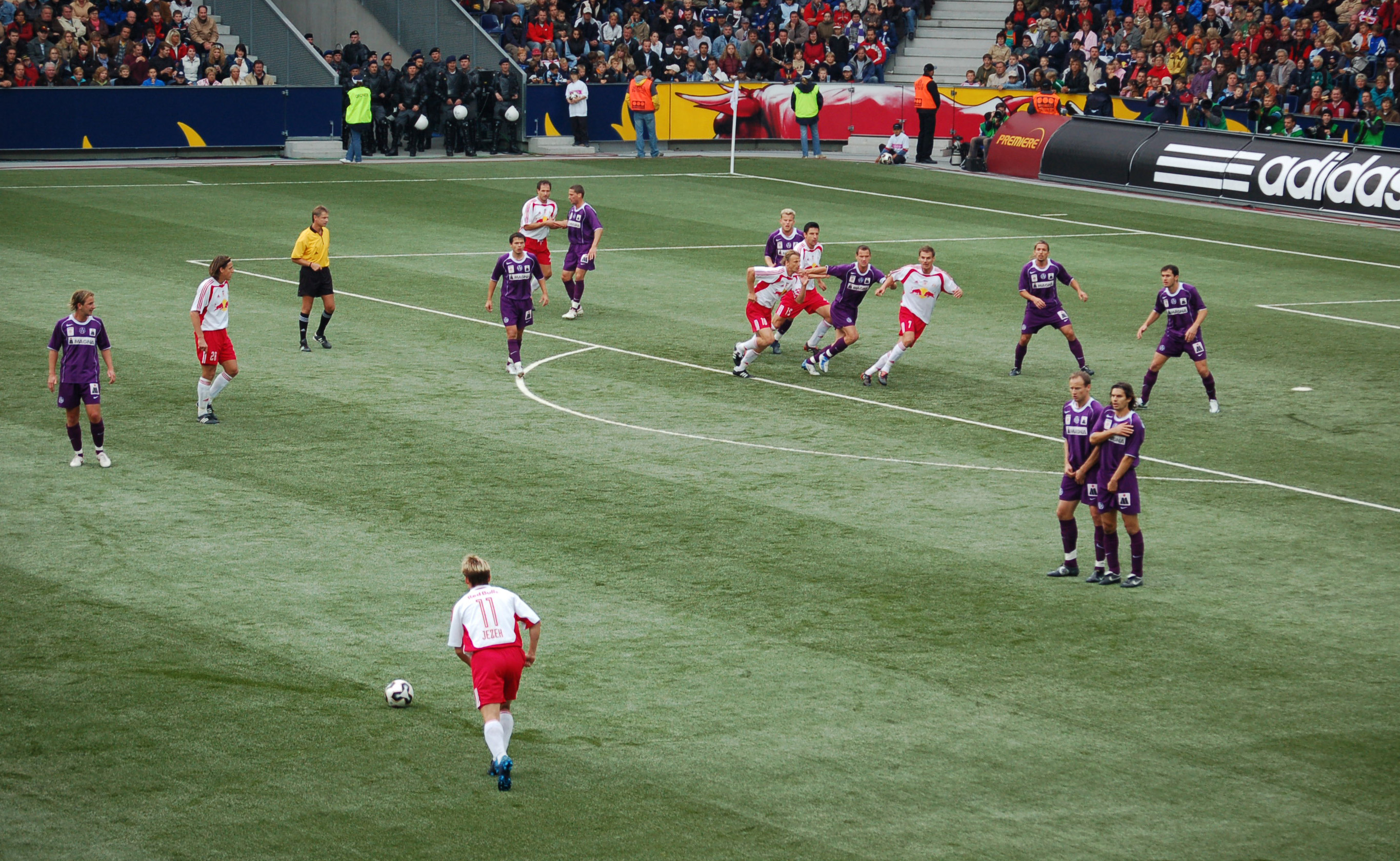 Direct free kick (Red Bull Salzburg vs. Austria Wien) in EM Stadion Wals-Siezenheim.